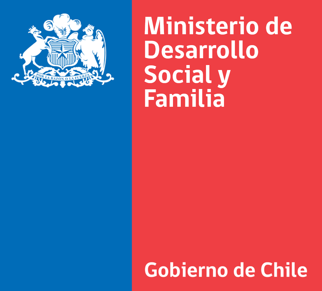 Logo of the Ministry of Social Development and Family